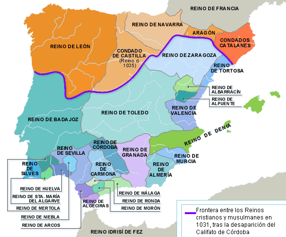 Map of Spain and Portugal in 1031